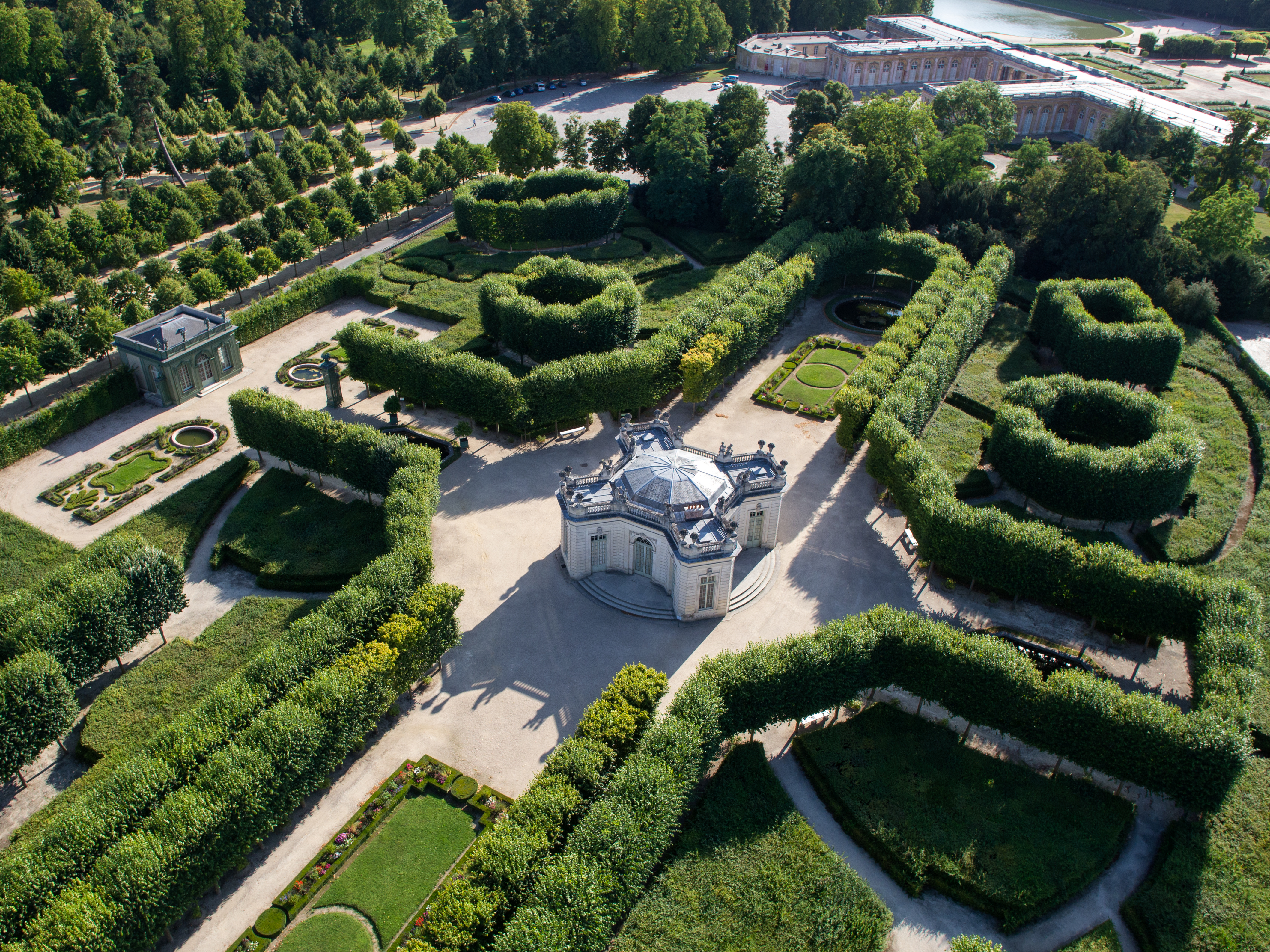 Aerial view of the Gardens of the Petit Trianon, Domain of Versailles, France (Pavillon français and Pavillon frais)